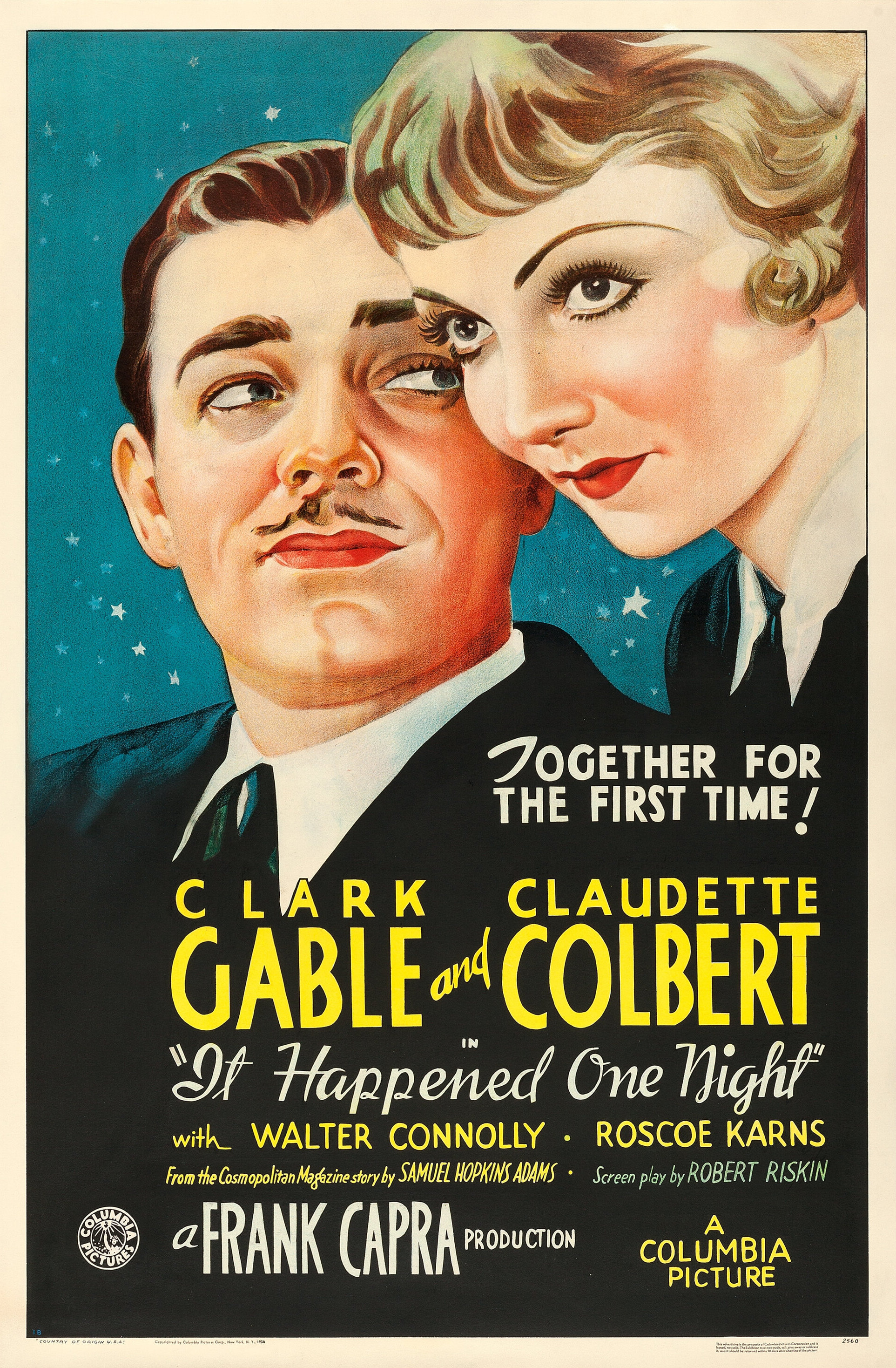 Original movie poster for the American film It Happened One Night (1934), directed by Frank Capra.